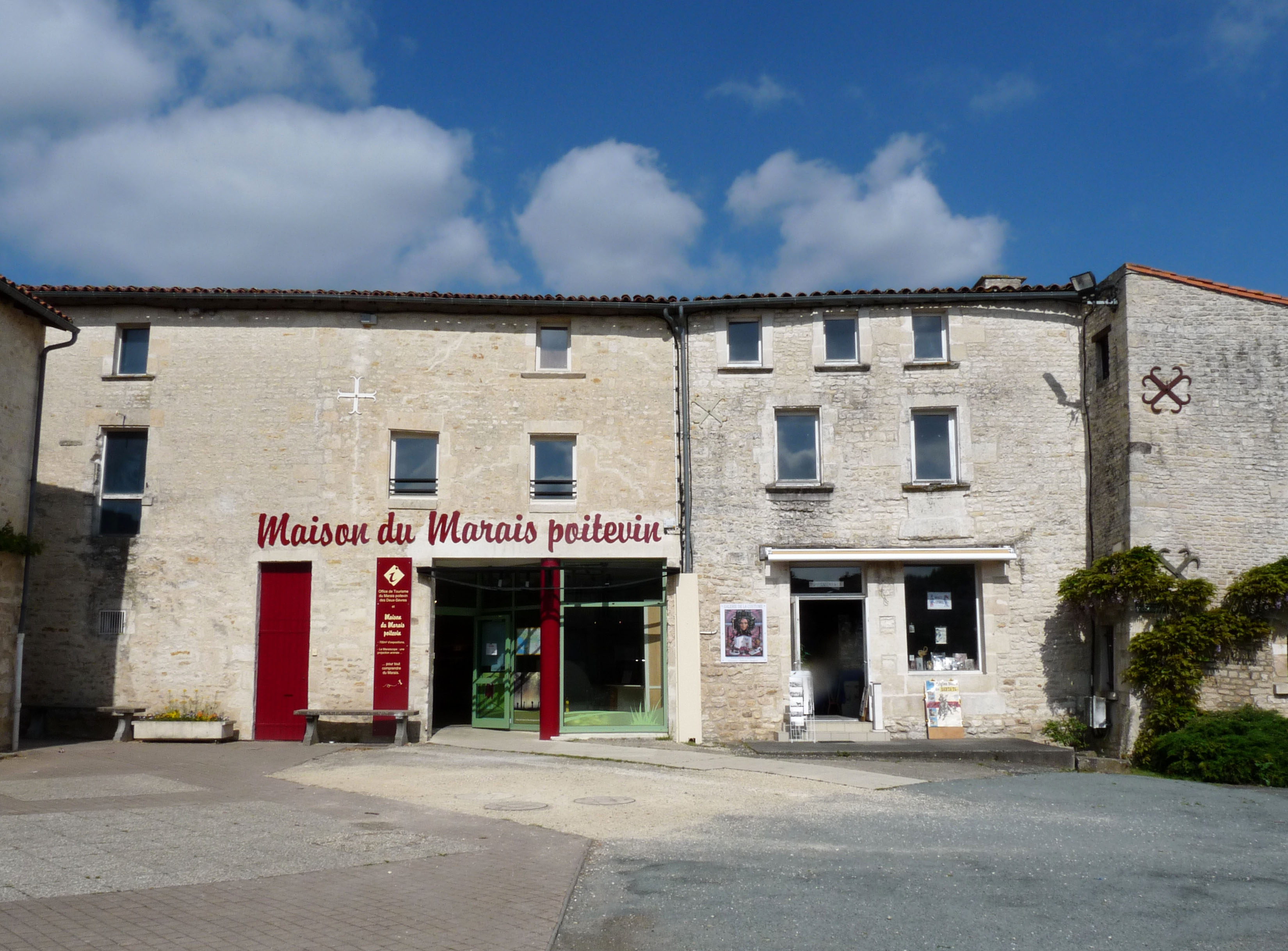 Maison du Marais poitevin in Coulon (Deux-Sèvres)